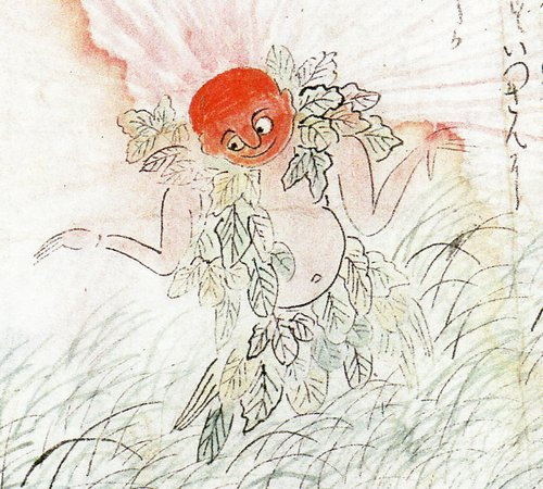 Akagashira (赤頭) from the "Tosa bakemono ehon" (土佐化物絵本, Japanese picture)